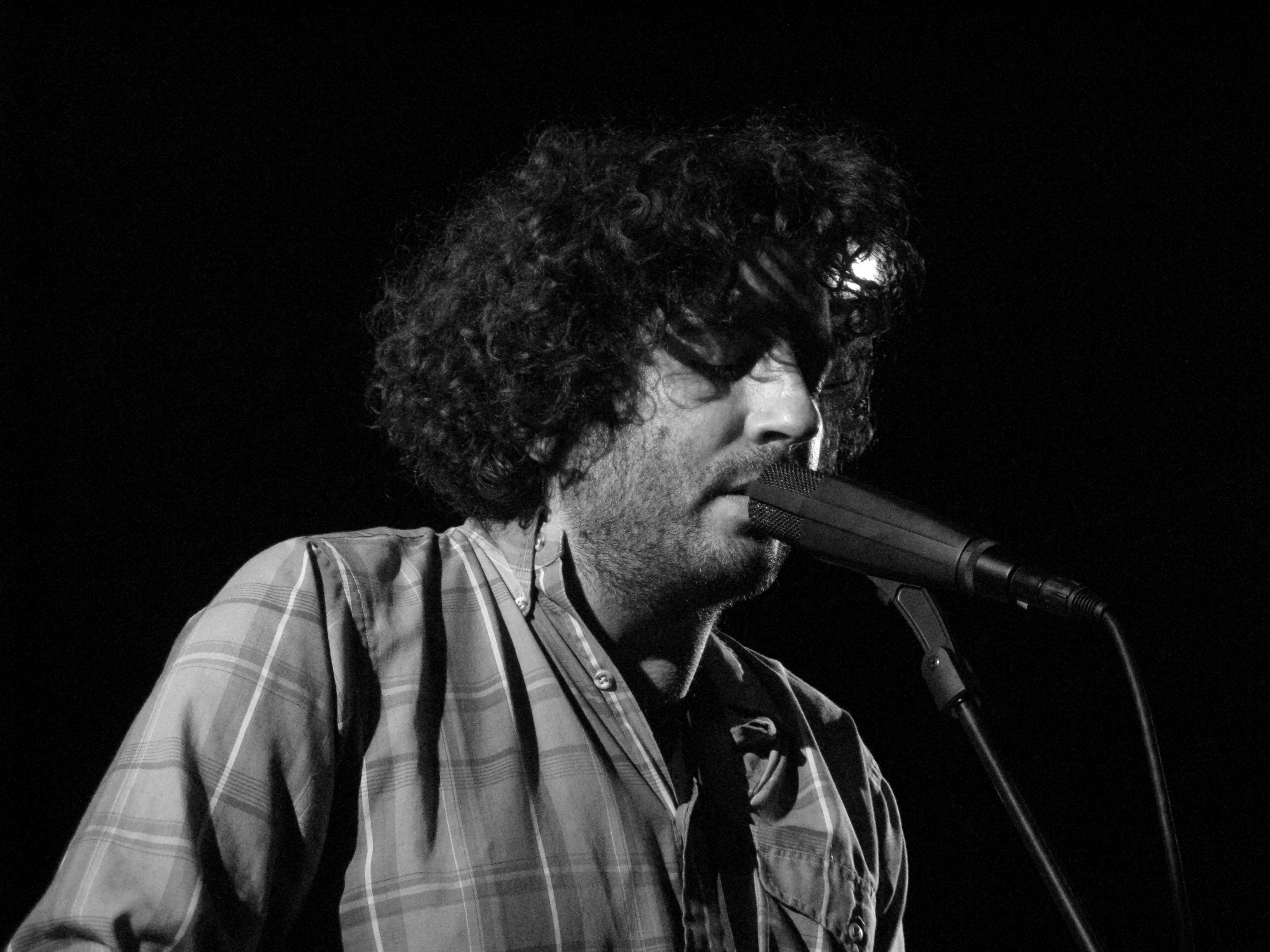 Dan Bejar performing with Destroyer at The Troubadour in West Hollywood, California on May 19, 2008